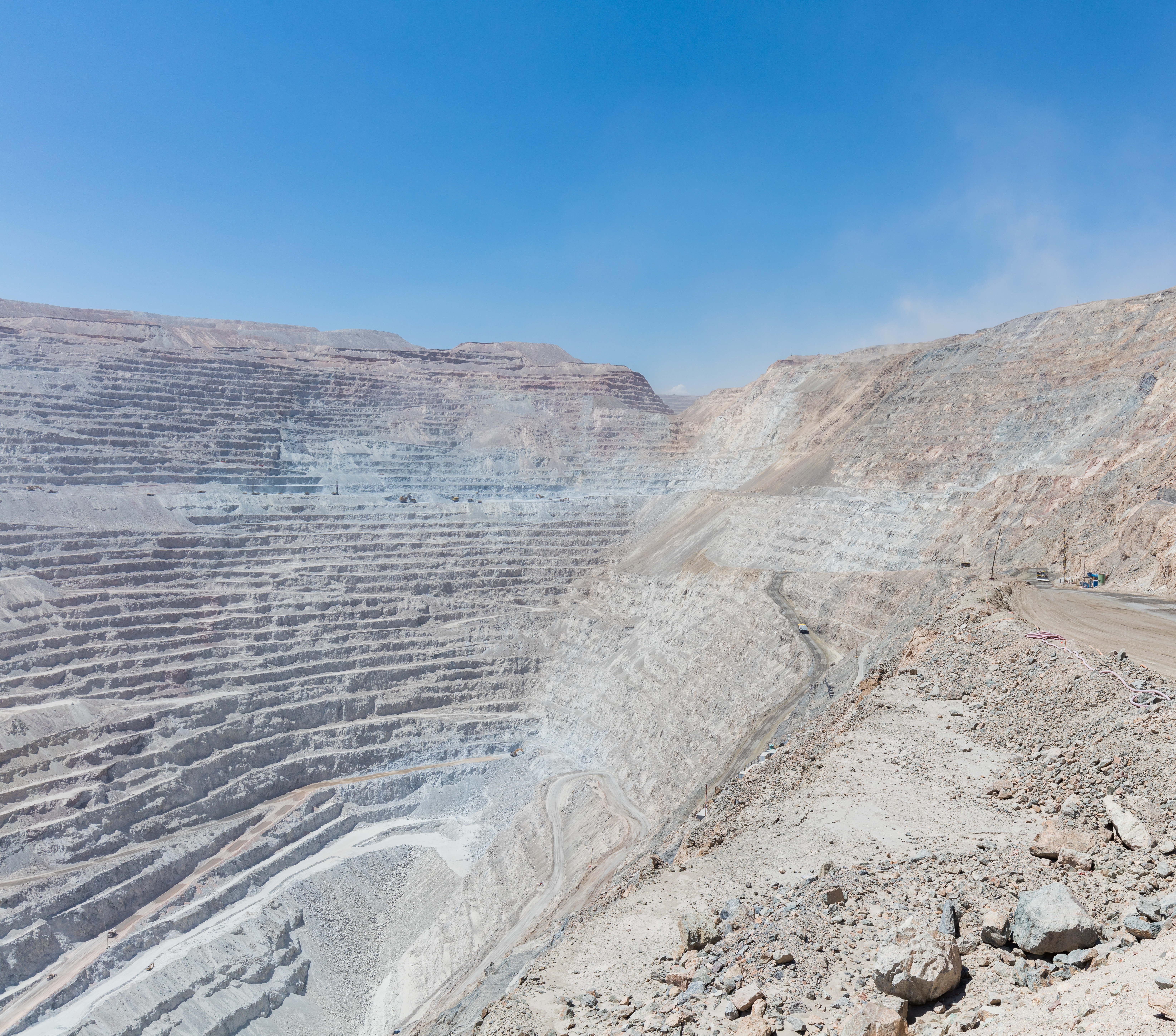 Chuquicamata Mine, Calama, Chile